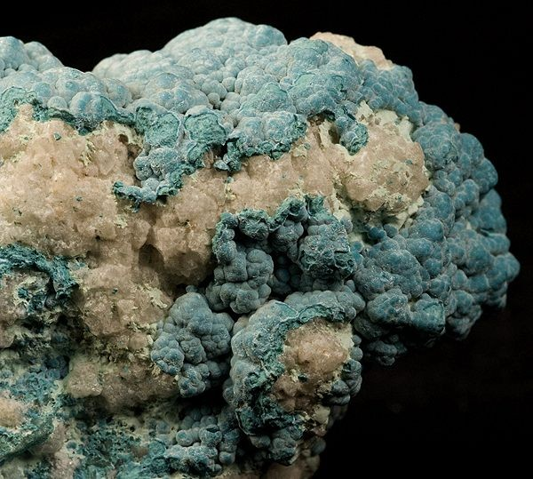 Plancheite, Dolomite Locality: Tsumeb Mine (Tsumcorp Mine), Tsumeb, Otjikoto (Oshikoto) Region, Namibia (Locality at ) Size: 9.0 x 6.0 x 3.4 cm. Plancheite is a rare secondary copper silicate. Striking and beautiful, powder-blue, matte-lustre plancheite botryoids with complimentary calcite crystals richly cover the sculptural matrix on this fine specimen from the Tsumeb Mine. This is an exceptionally rich and large specimen for the species and renowned locale. Ex. Rob Smith Collection.